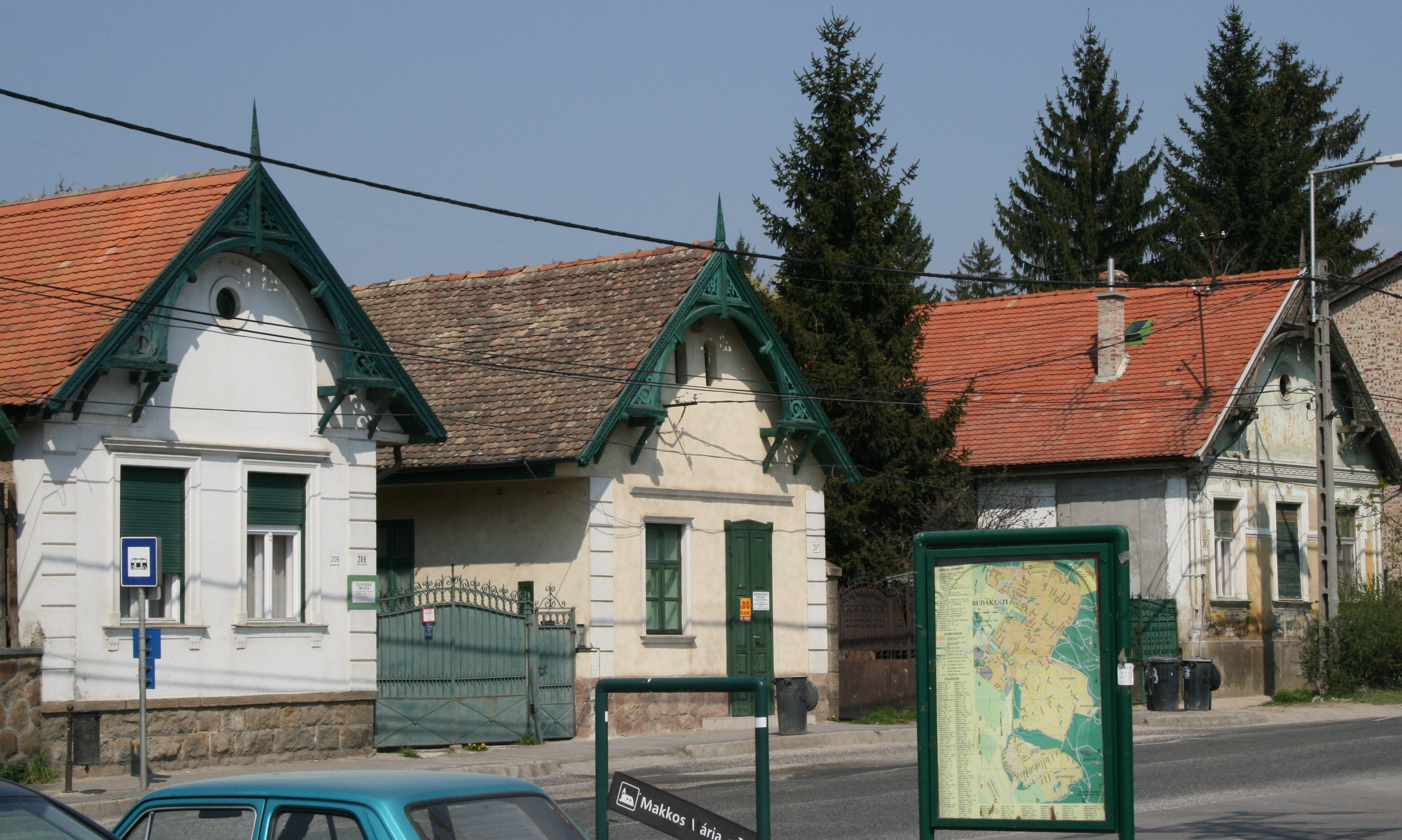 Characteristic listed houses. ID 8723, 8724, 8725. - 205-209., Fő street., Budakeszi, Pest County, Hungary. This is a photo of a monument in Hungary, Identifier: 8723 This is a photo of a monument in Hungary, Identifier: 8724 This is a photo of a monument in Hungary, Identifier: 8725